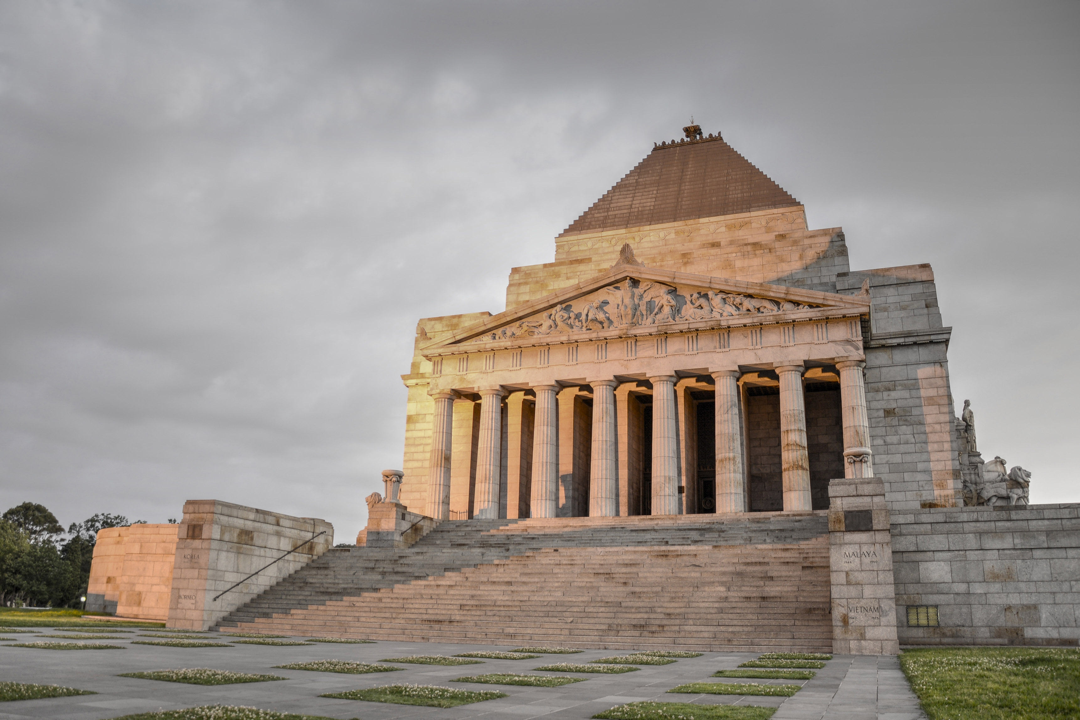 The Shrine of Remembrance, located in Kings Domain on St Kilda Road, Melbourne, Australia was built as a memorial to the men and women of Victoria who served in World War I and is now a memorial to all Australians who have served in war. It is a site of annual observances of ANZAC Day (25 April) and Remembrance Day (11 November) and is one of the largest war memorials in Australia.